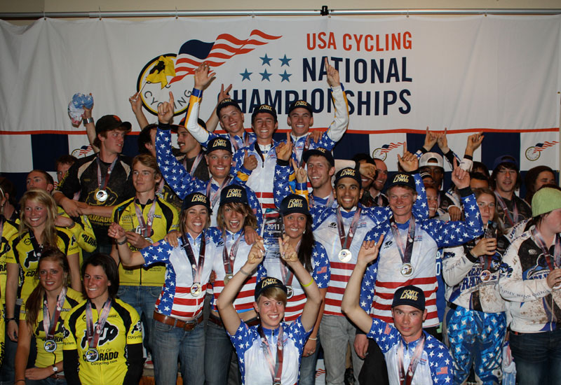 The FLC Cycling Team on the podium after winning the team omnium mountain biking title at the 2011 USA Cycling mountain biking national championships in Angel Fire, NM. I am the copyright holder of this work, and publish it under Creative Commons licensing. The copyright holder of this file allows anyone to use it for any purpose, provided that the copyright holder is properly attributed. Redistribution, derivative work, commercial use, and all other use is permitted.